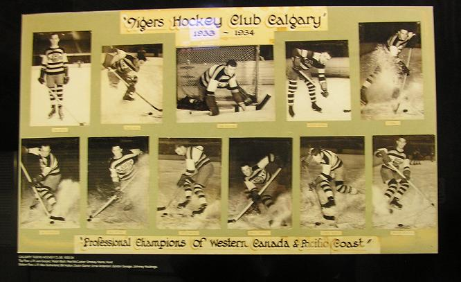 Picture of the Calgary Tigers 1933-34 team photo as part of a historical mural at the Scotiabank Saddledome.